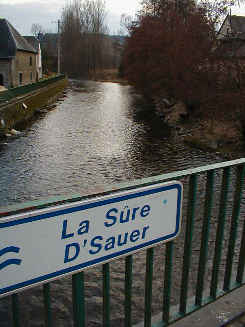 Picture of the Sûre river at Martelange (Maartel, BE), with a bilingual French/Luxembourguish sign («La Sûre/D'Sauer»). Picture taken by L. Mahin in 2004.